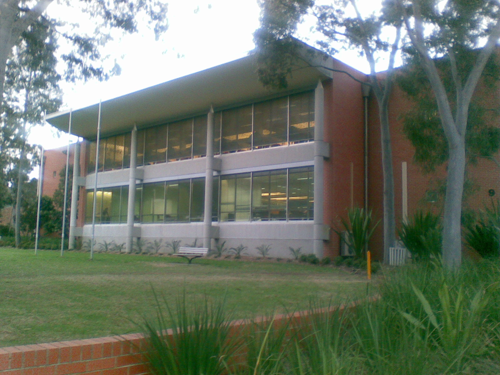 Library of the University of Western Sydney in Sydney, Australia